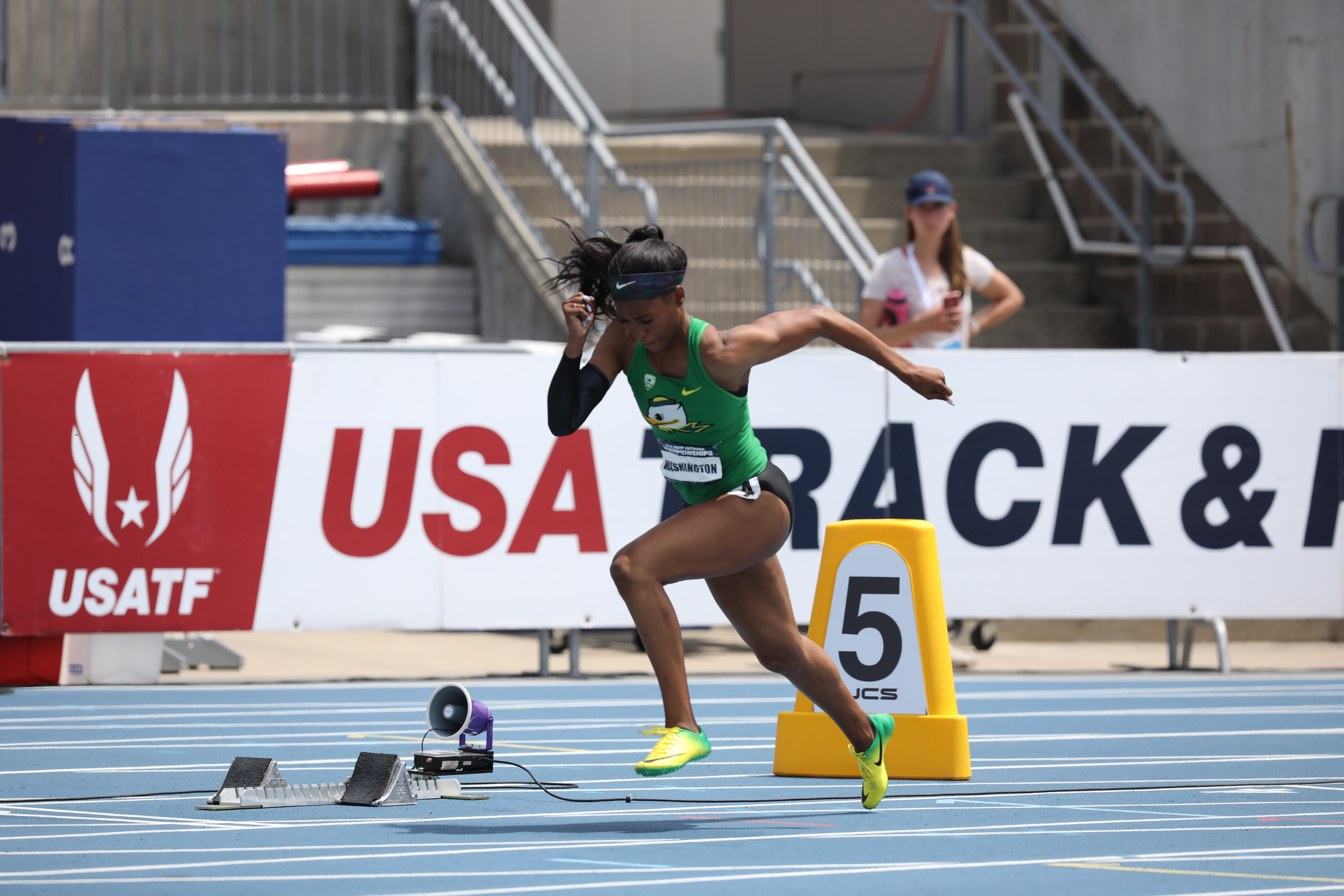 2018 USA Outdoor Track and Field Championships